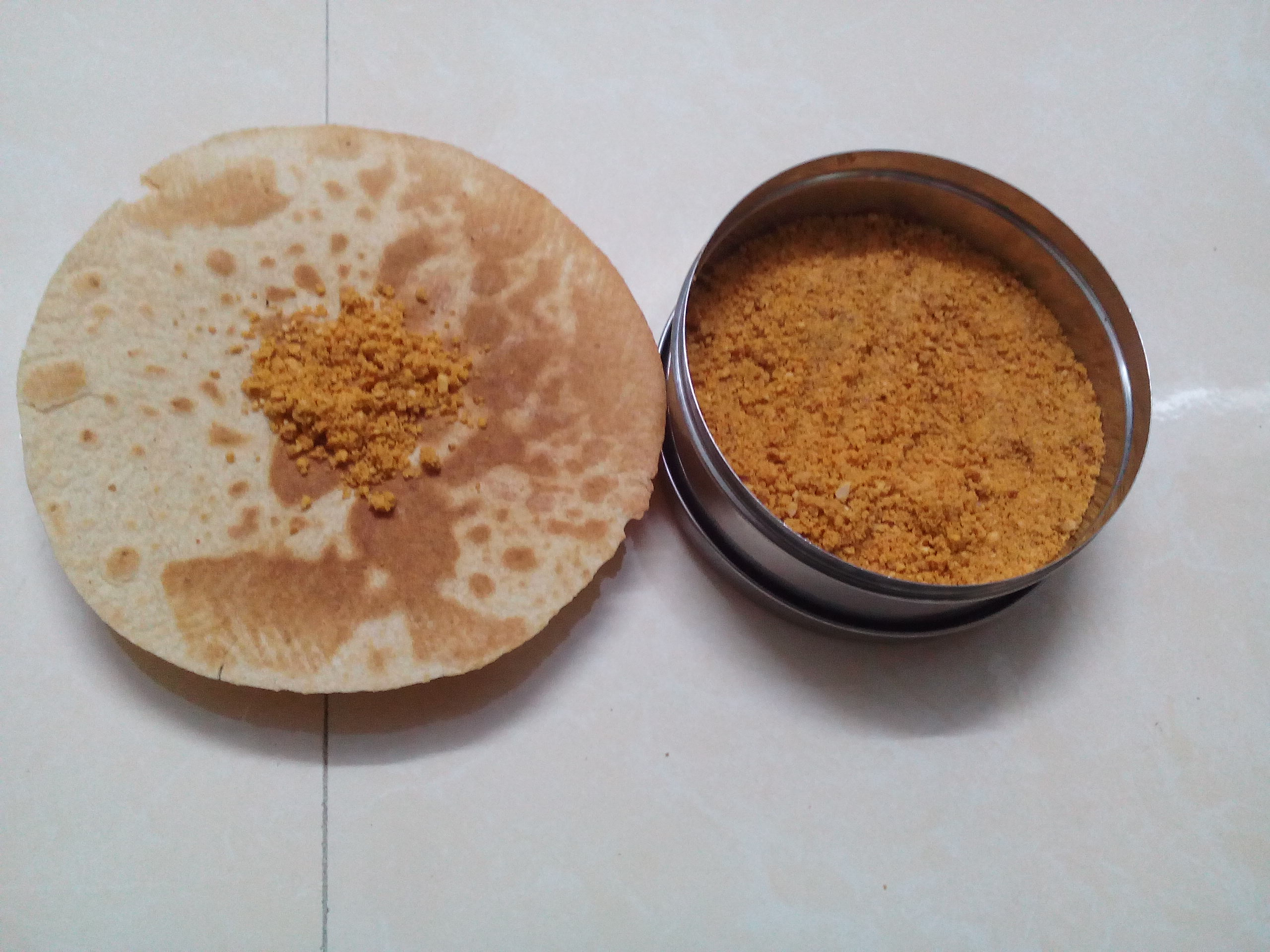 It is food of hindu religion. which is eaten as lite food with the ghee and khakhara. This is testy food in hindu religion. it is some oily but best for health becouse it contain crushed peanuts.